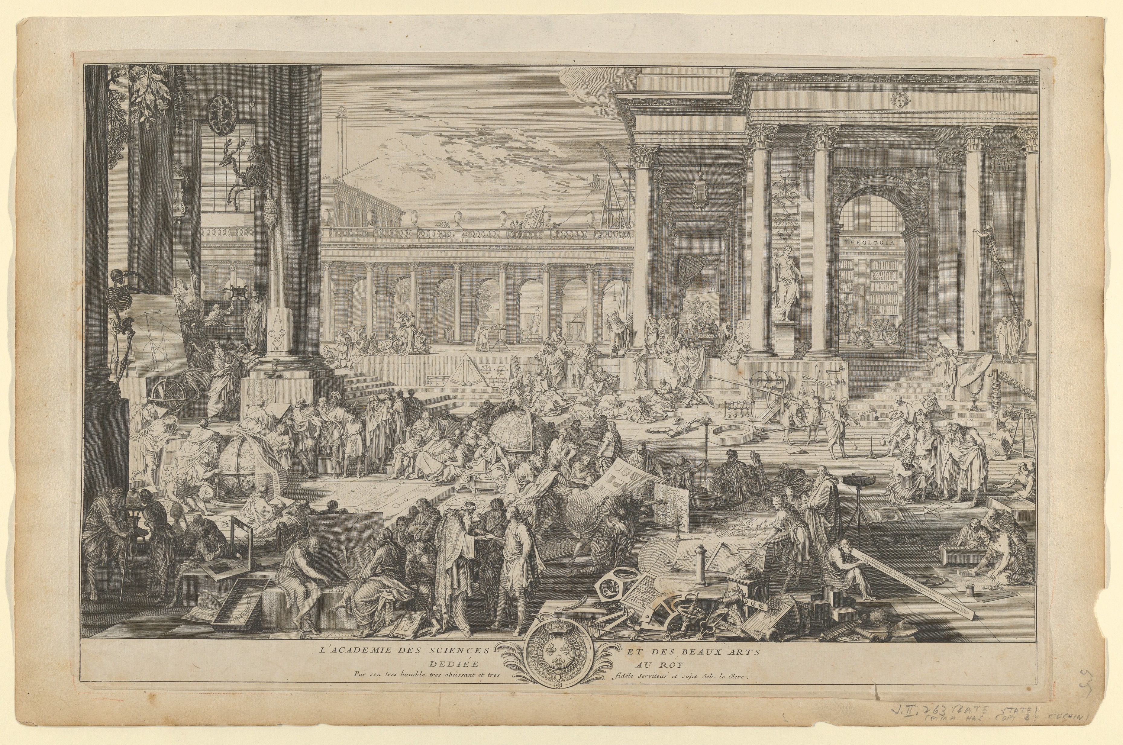 Print; Prints